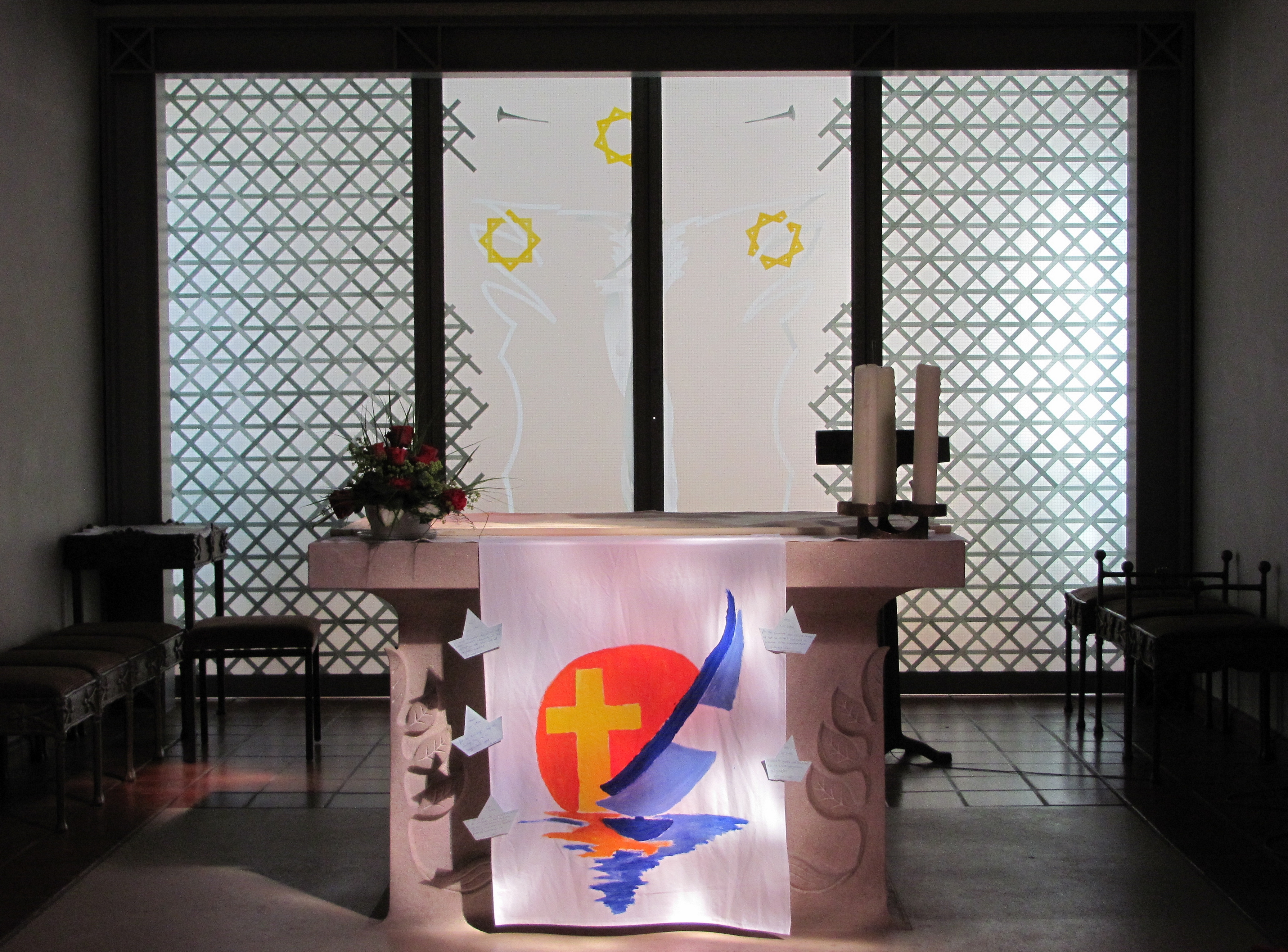 Altar of rc church Maria Meeresstern, Borkum, Germany